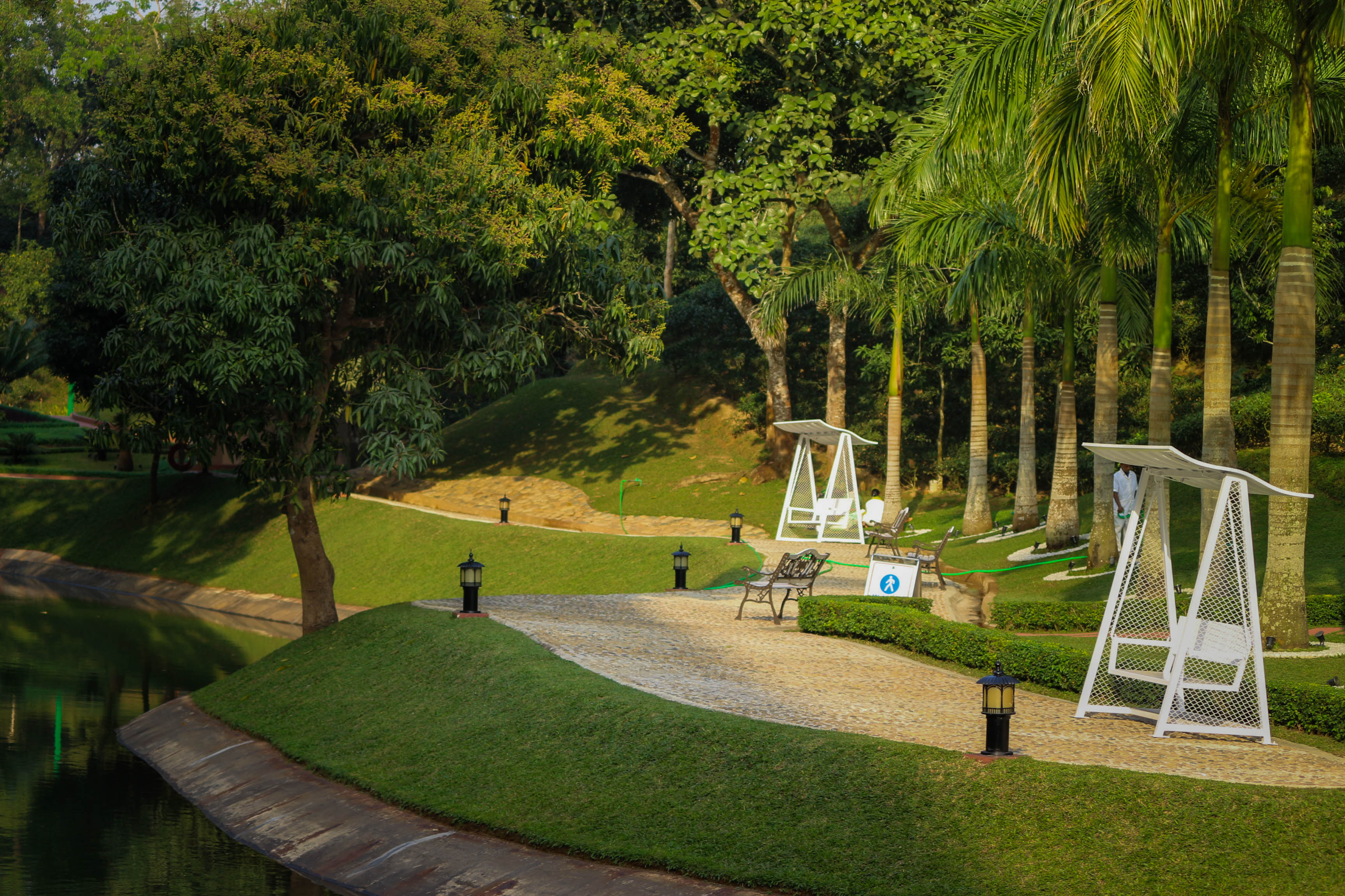 Grand Sultan Tea Resort & Golf, Sreemangal Upazila, Moulvibazar District, Sylhet Division, Bangladesh.